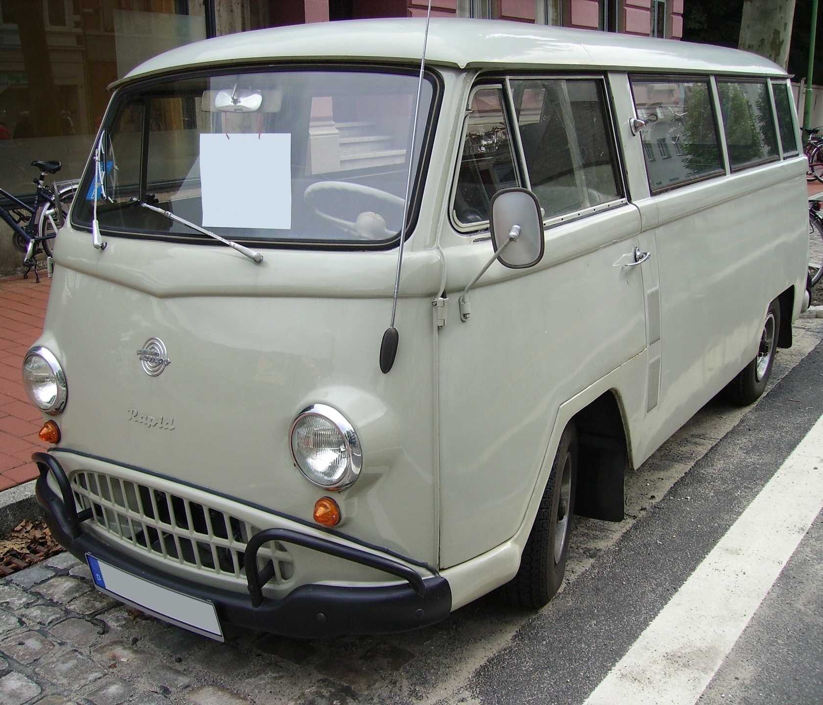 A Tempo Rapid from 1961, a light commercial vehicle